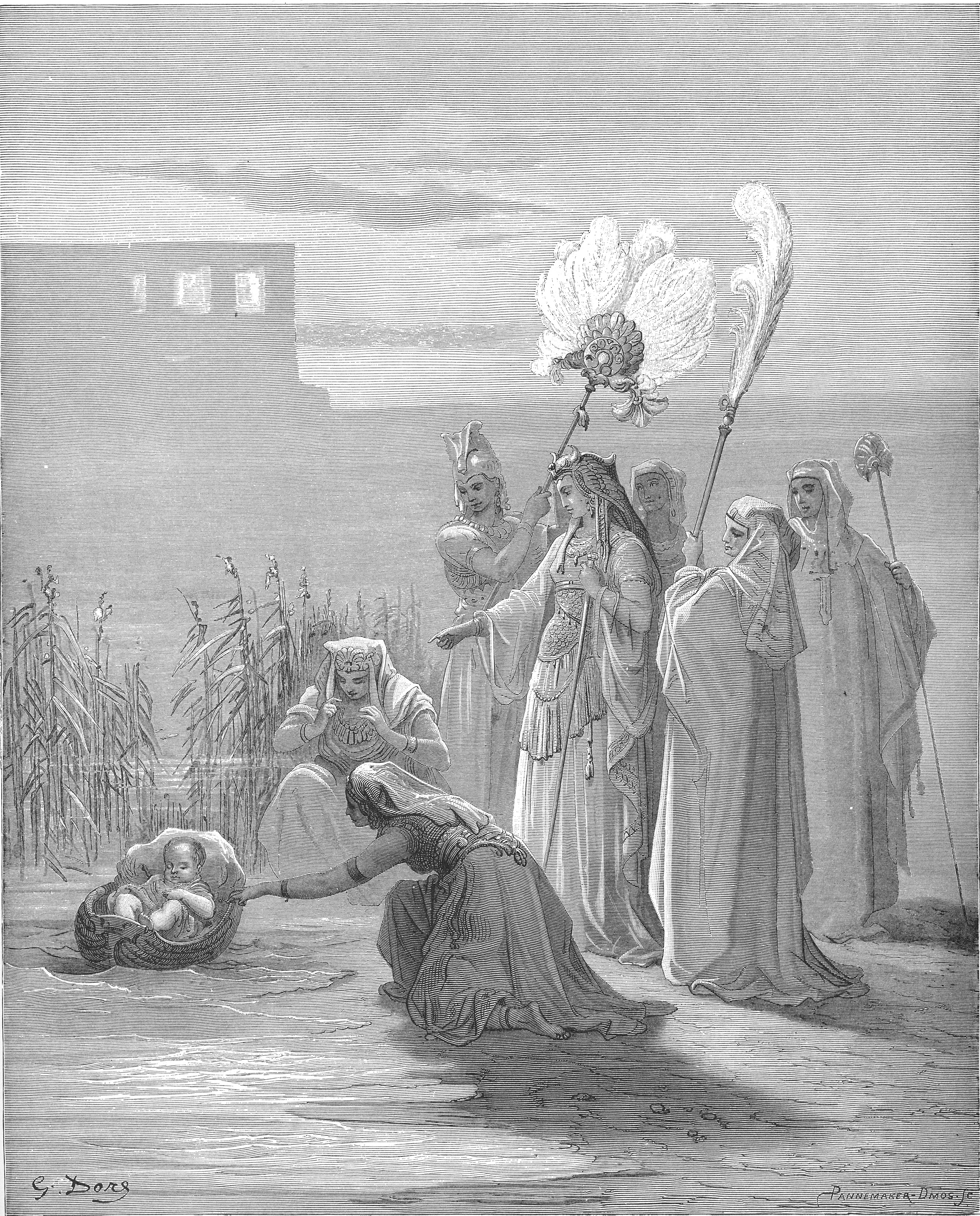 The Finding of Moses (Ex. 2:5-10)